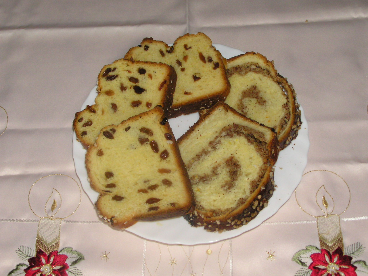 Cosonac